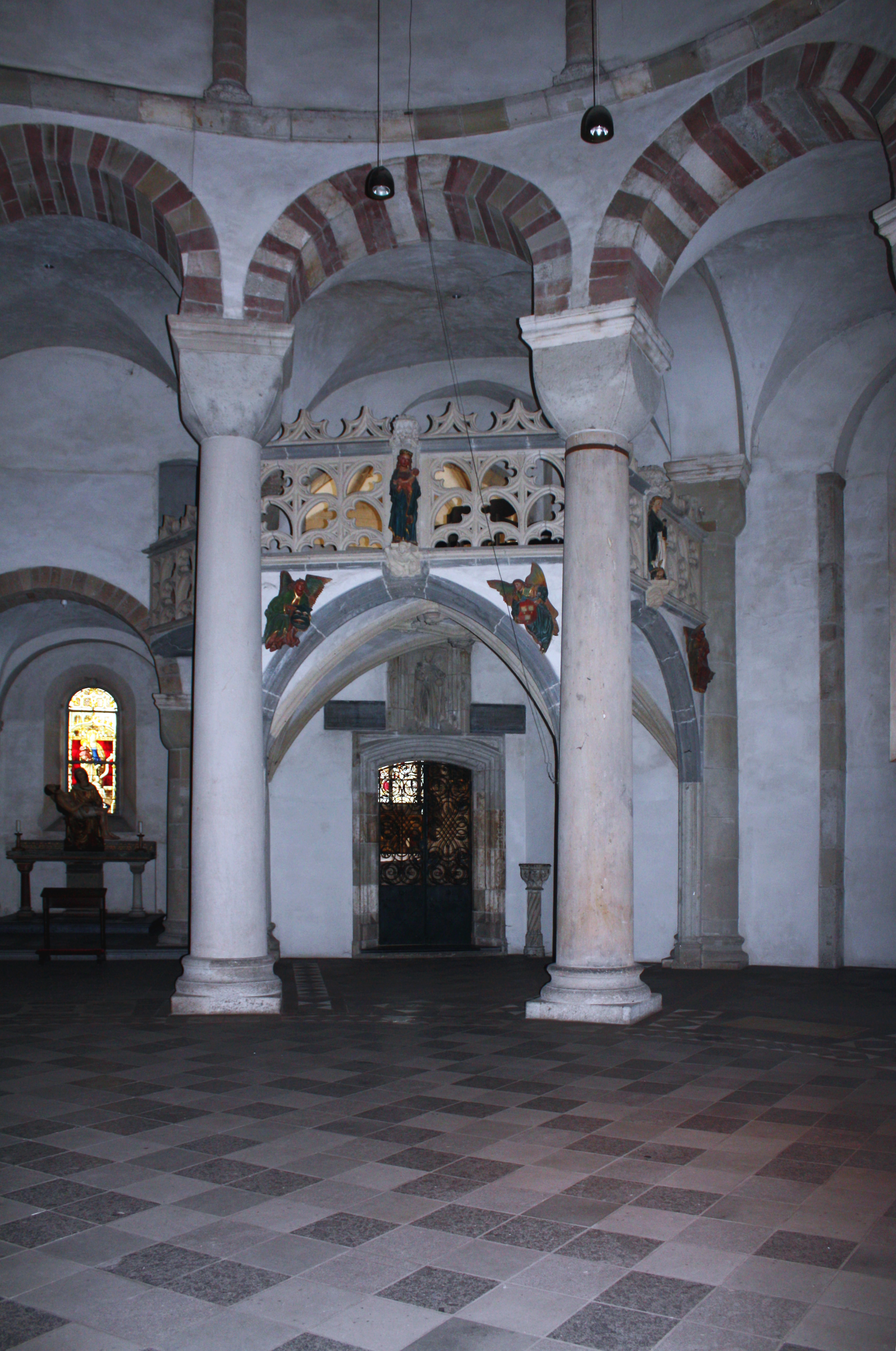 Cologne, St. Maria im Kapitol and Hardenrath chapel